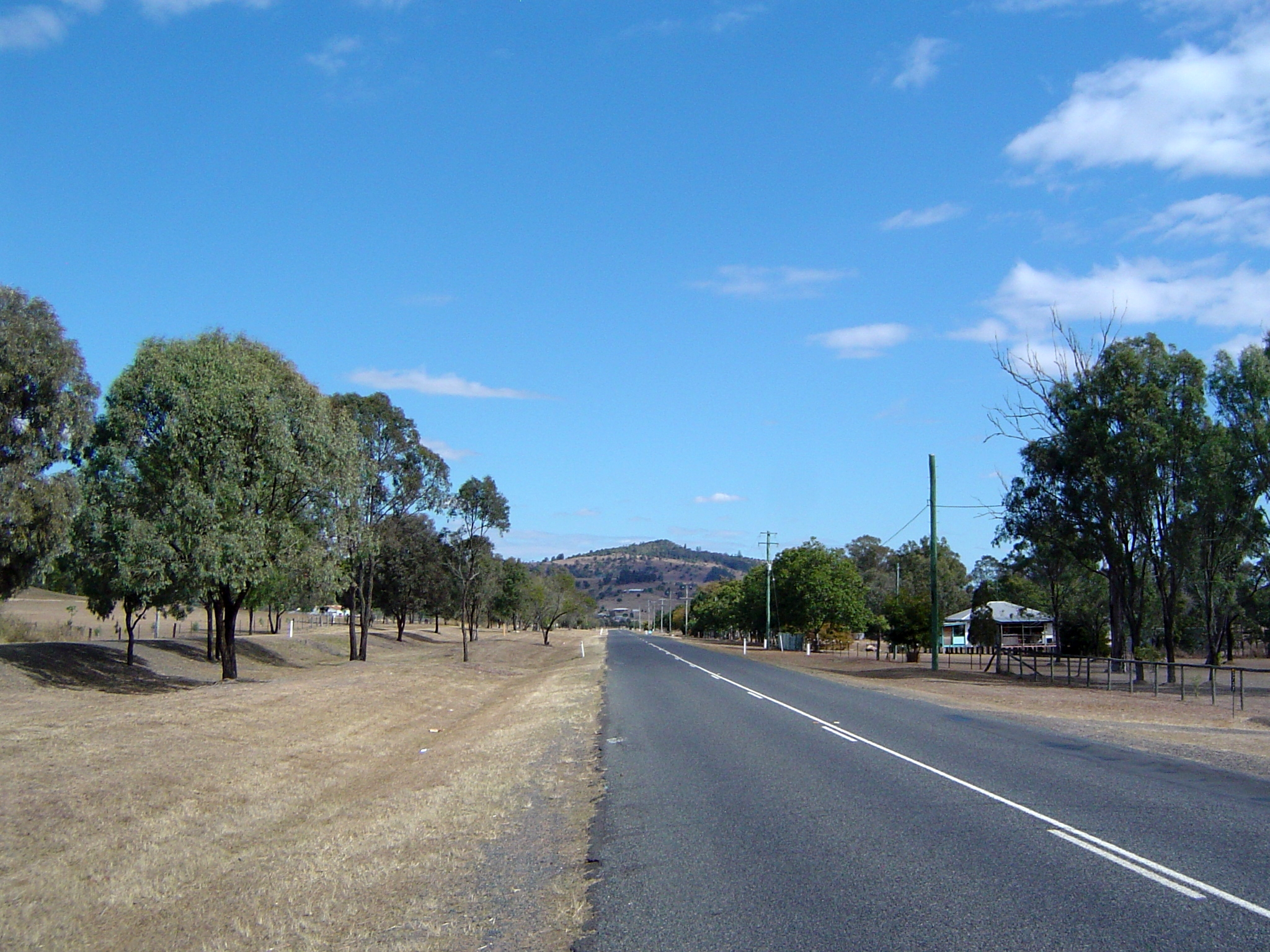 Forest Hill-Fernvale Road at Vernon, Somerset Region, Queensland, Australia.